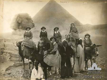 Group of Australian Army Nurses pictured on camels in front of the Sphinx and pyramids, circa 1915. Sister Isabelle Bowman is believed to be one of the nurses.